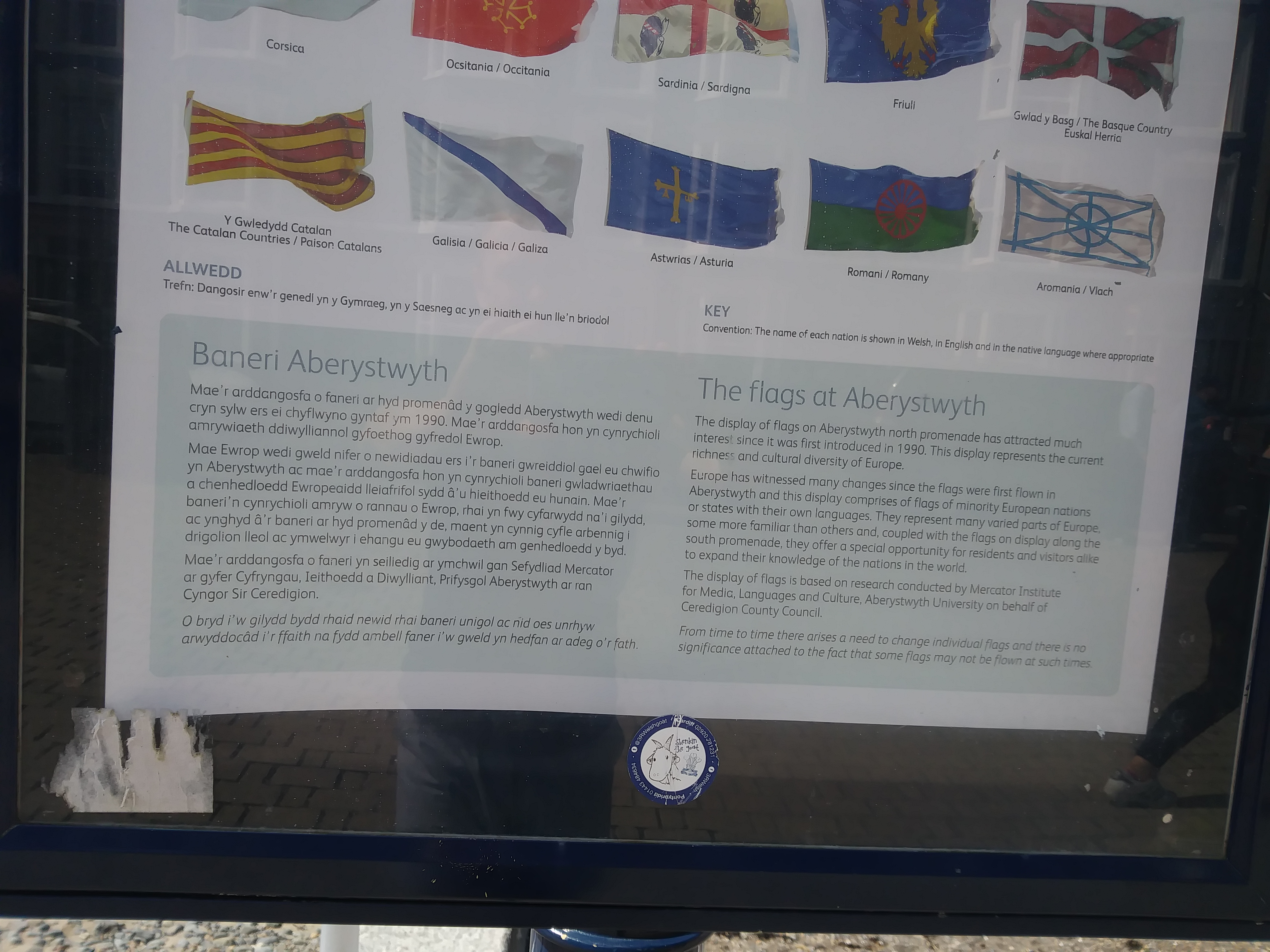 Aberystwyth flags of non-independent nations and minorities languages,sign